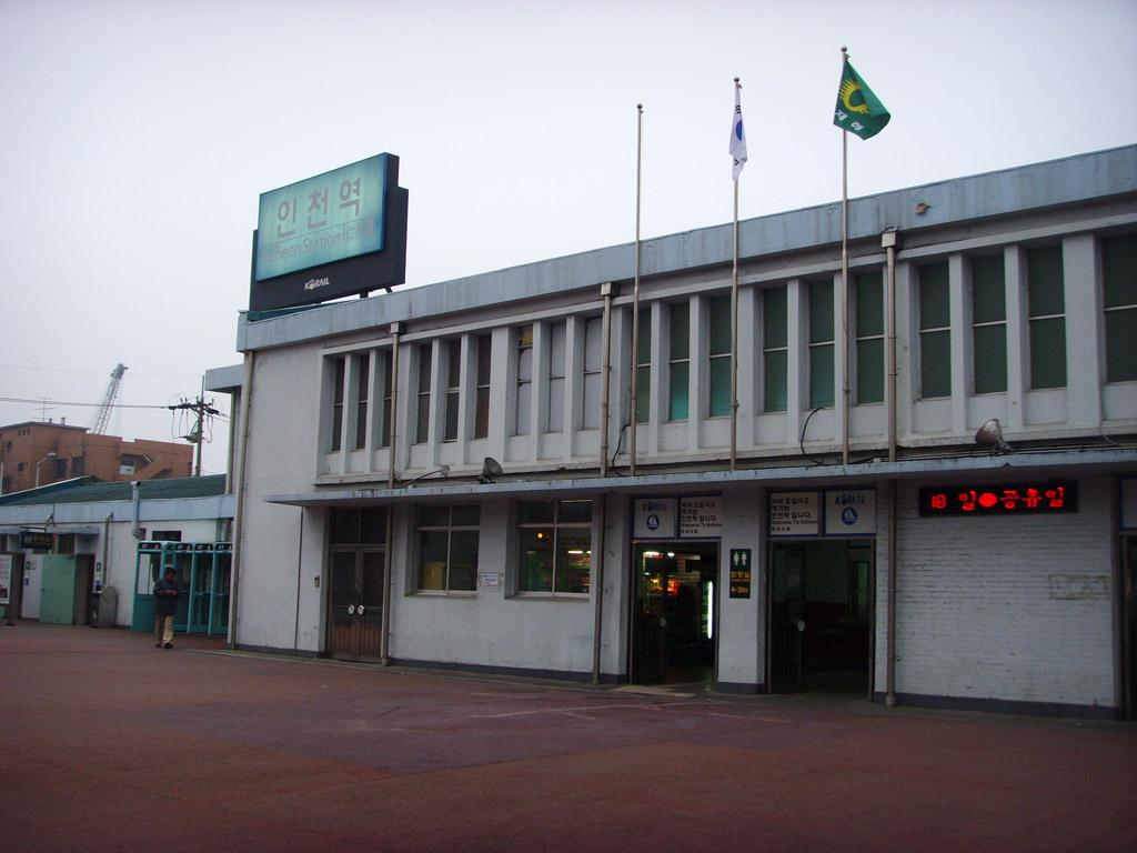 Gyeongin Line Incheon Station